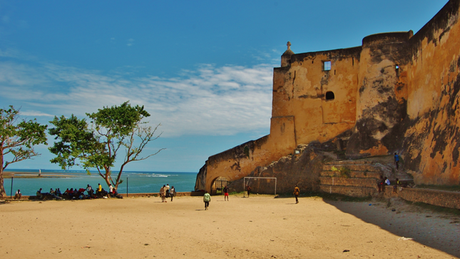 Fort Jesus by the Portuguese, Mombasa 1593